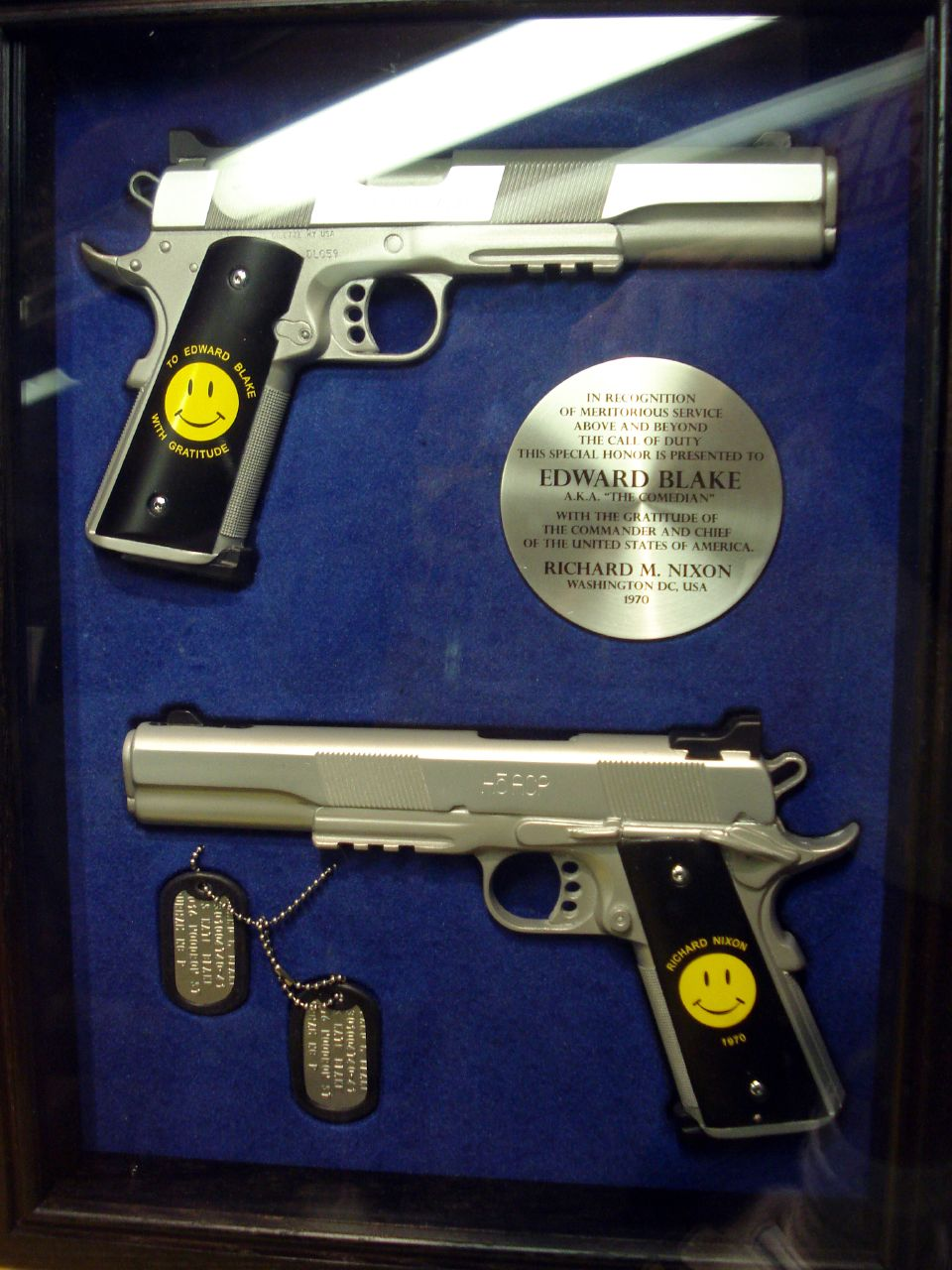 The Comedian's guns from Watchmen: The Movie, at ComicCon'08